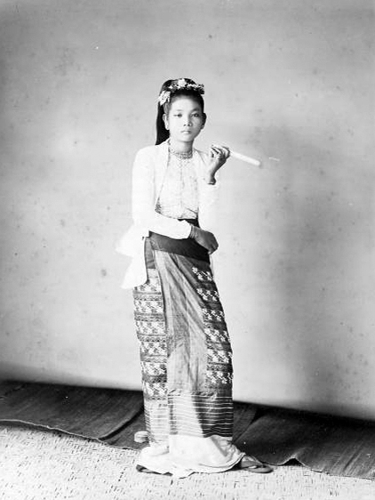 A Burmese lady.